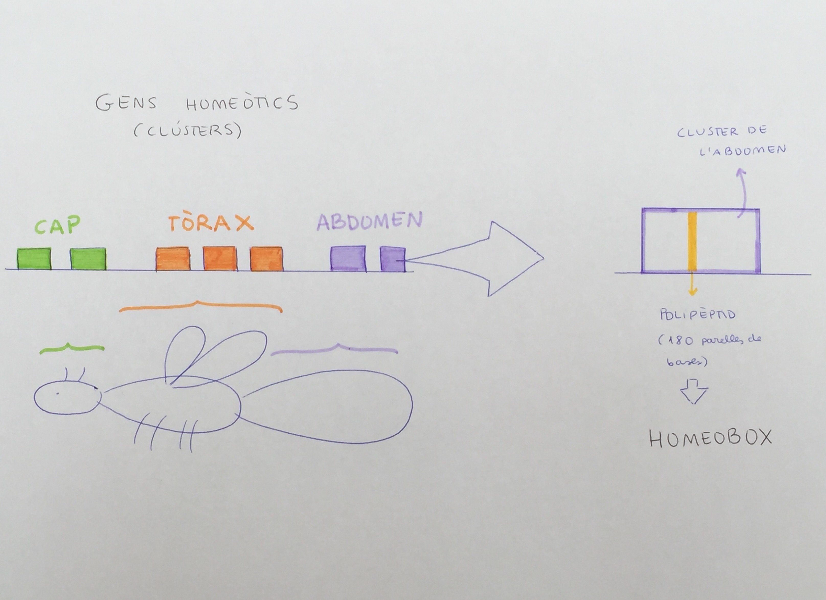 Esquema que mostra els diferents clústers d'un gen homeòtic.